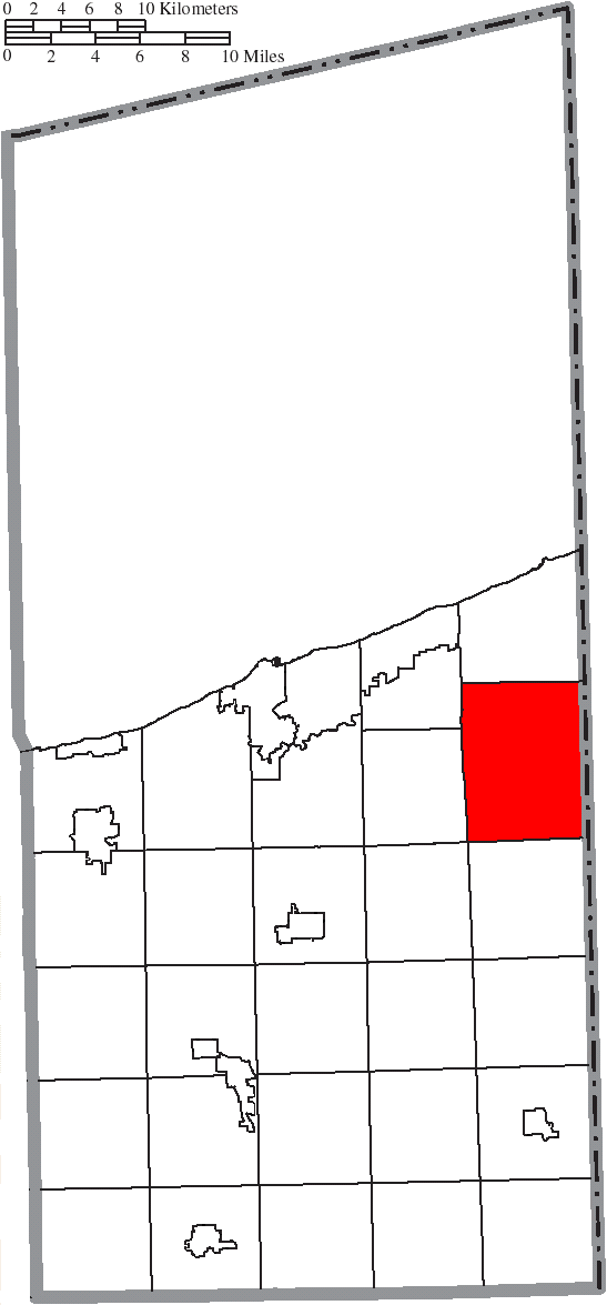 Map of the municipal and township boundaries of Ashtabula County, Ohio, United States, as of the 2000 census, with the location of Monroe Township highlighted. Township borders are shown only in unincorporated areas in order to differentiate incorporated and unincorporated areas more clearly.